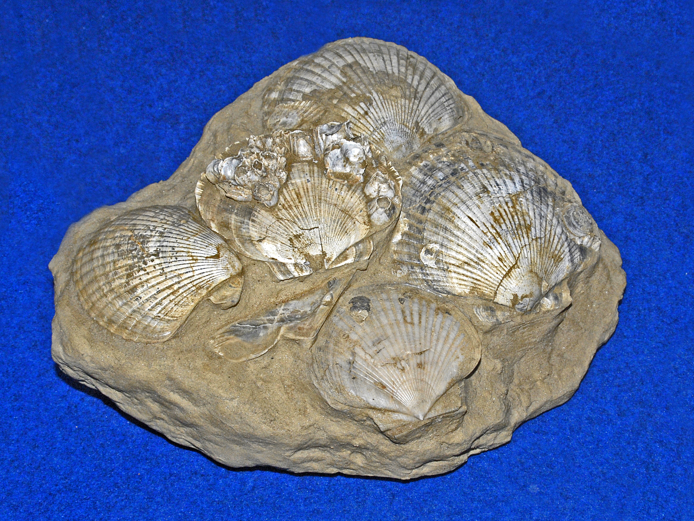 Fossil shells of Pecten nigromagnus from Pliocene of Italy, on display at the Museo Paleontologico, Asti